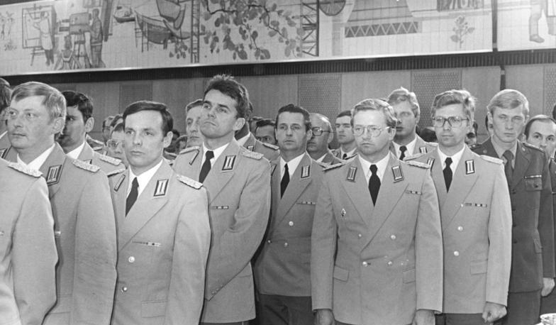 Graduates/ officers reception of the “Military Academy Friedrich Engels”, the foreign military academies as well as the graduates/ officers from civil universities and high schools by the head of government, Erich Honecker, in Berlin (Staatsratsgebaeude), here the officers age-group 1981.